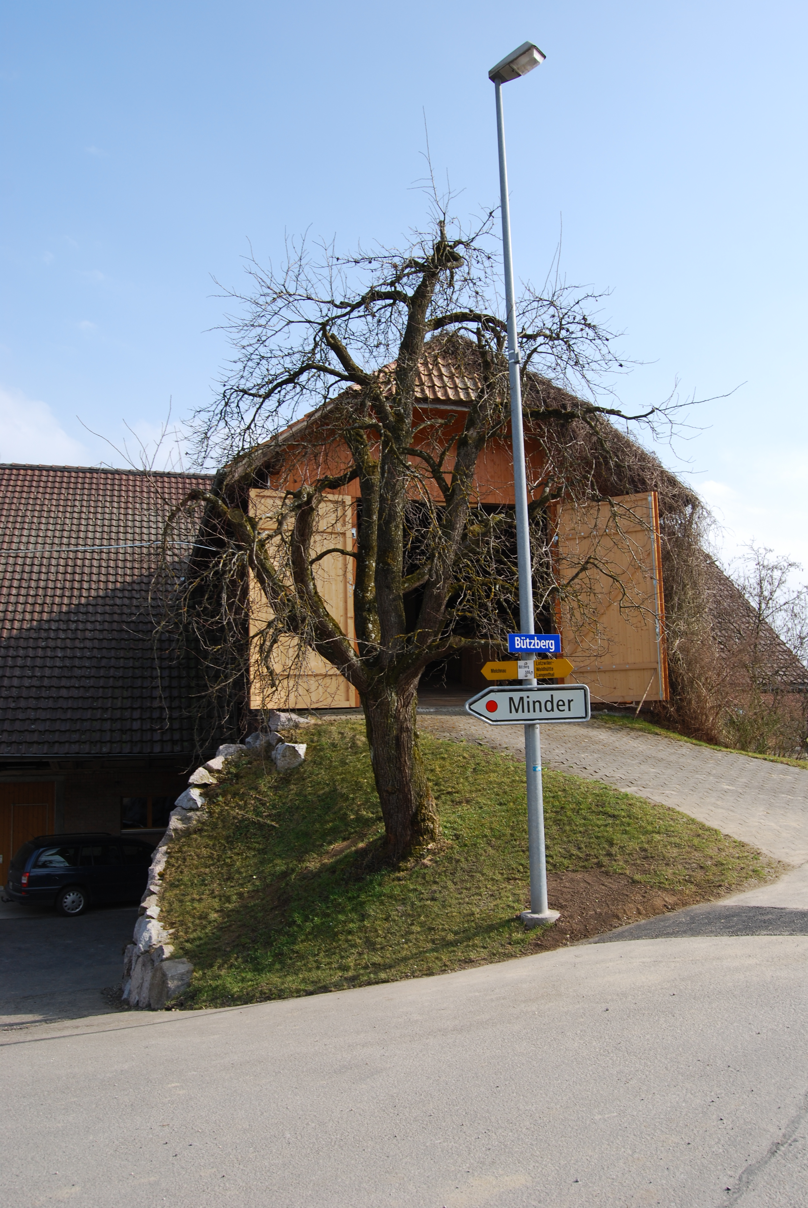 Bützberg, municipality of Busswil bei Melchnau, canton of Bern, Switzerland